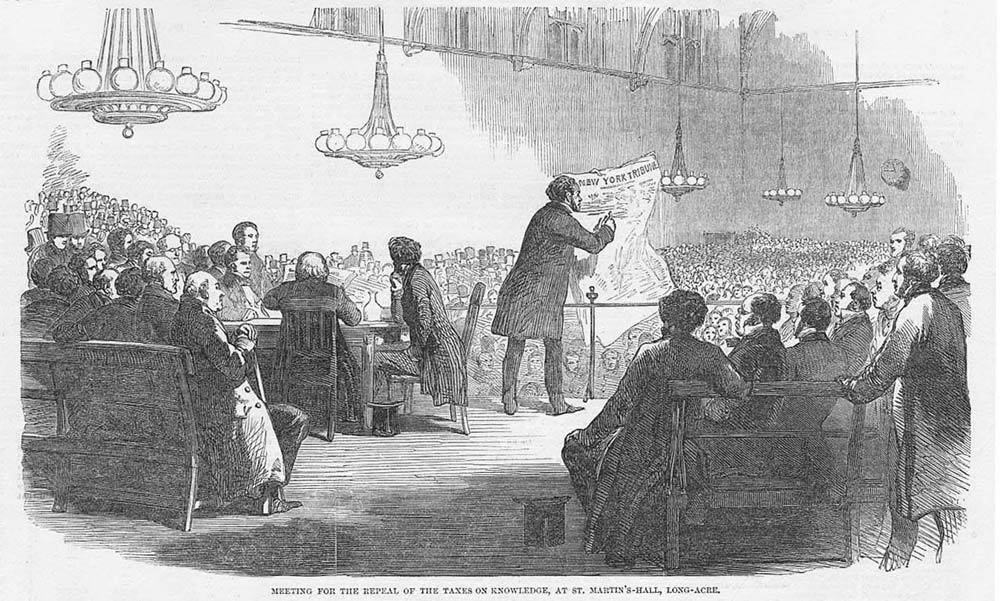 Illustration from the Illustrated London News: "Meeting for the Repeal of the Taxes on Knowledge, St Martin's Hall, Long Acre". See Taxes on knowledge.